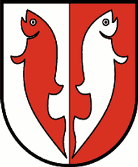 Source: "Fahnen-Gärtner GmbH, Mittersill" This file depicts a coat of arms. The composition of coats of arms are generally public domain with respect to copyright laws, and may be reproduced freely. This corresponds to the international traditional usage, and is explicitly stated in some national copyright laws. Some compositions, of more recent origin, may be copyrighted. This is not a valid license as such, being a "public domain" statement for the coat of arms definition only. It must be completed with the copyright tag associated to the picture creation. See Commons:Coats of arms for further information. Please note that this applies only to the coat of arms definition (composition / description). The representation of a coat of arms is an artistic creation, subject as such to copyright laws. Restriction of use - Legal notice: Most of the time, the usage of coats of arms is governed by legal restrictions, independent of the status of the depiction shown here. A coat of arms represents its owner. Though it can be freely represented, it cannot be appropriated, or used in such a way as to create a confusion with or a prejudice to its owner. Usage on Commons: Please provide licence information for the coat of arm representation, information for the author of the picture, and the source if not self-made work. This image is in the public domain according to Austrian copyright law because it is part of a law, ordinance or official decree issued by an Austrian federal or state authority, or because it is of predominantly official use. (§7 UrhG) To uploader: Please provide where the image was first published and who created it.